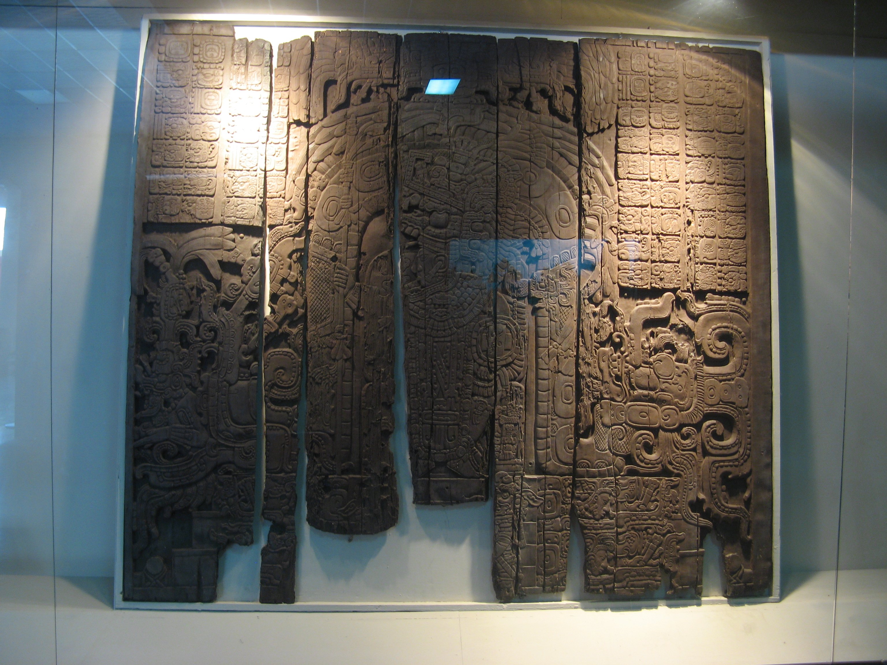 Maya site of Tikal, Petén, guatemala. Lintel 3 from temple IV. Sapodilla wood. King Yik'in Chan K'awiil (743)